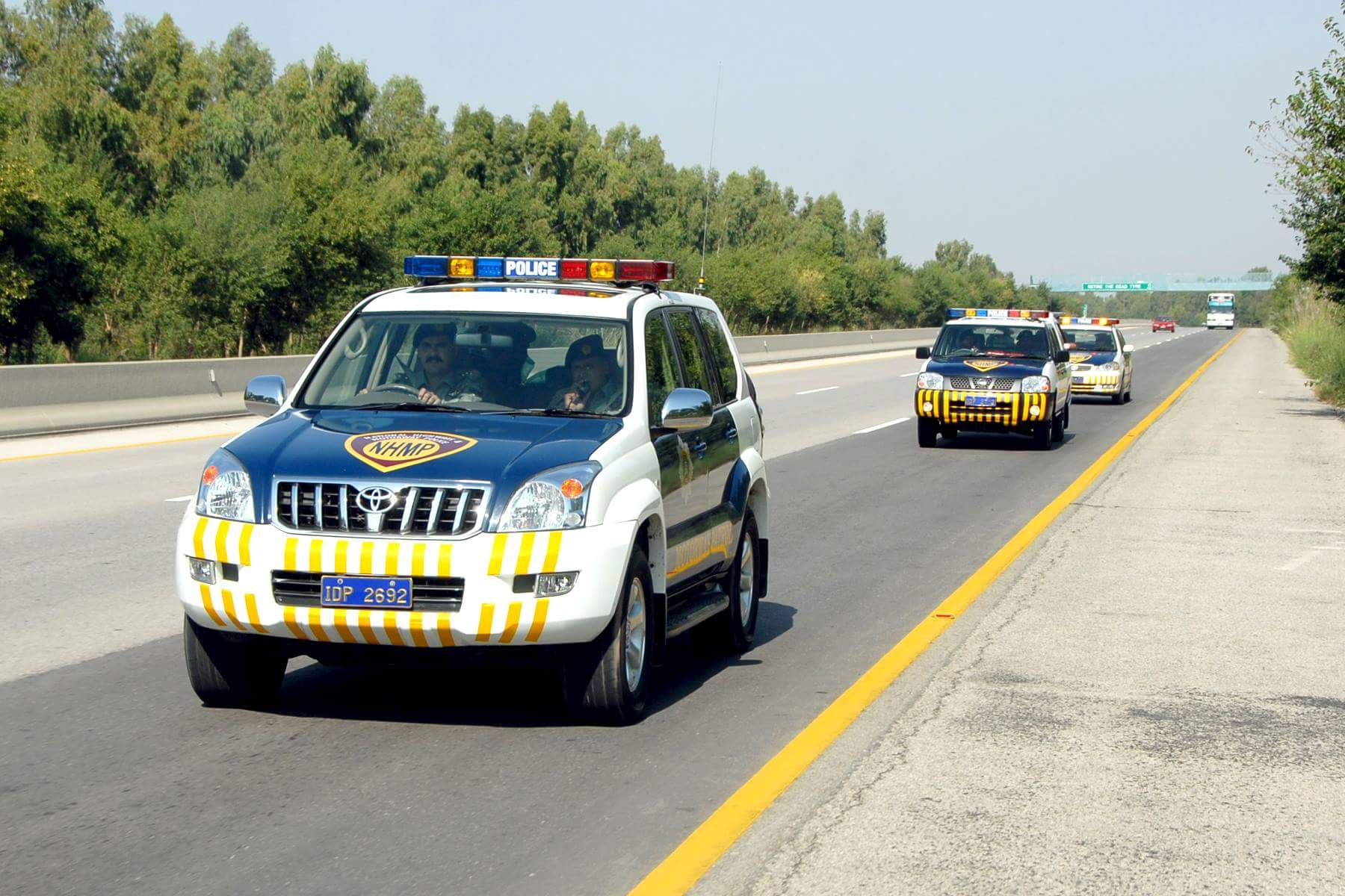 Motorway police patrolling at M2